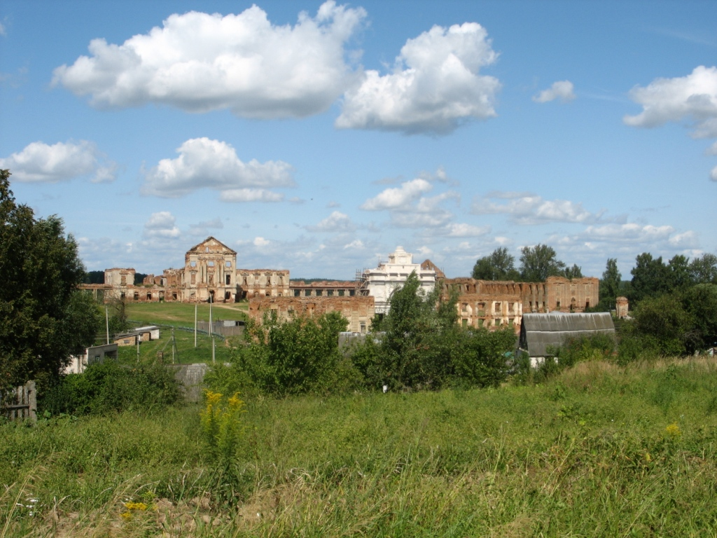 Palace of Sapieha (Ruzhany), Belarus